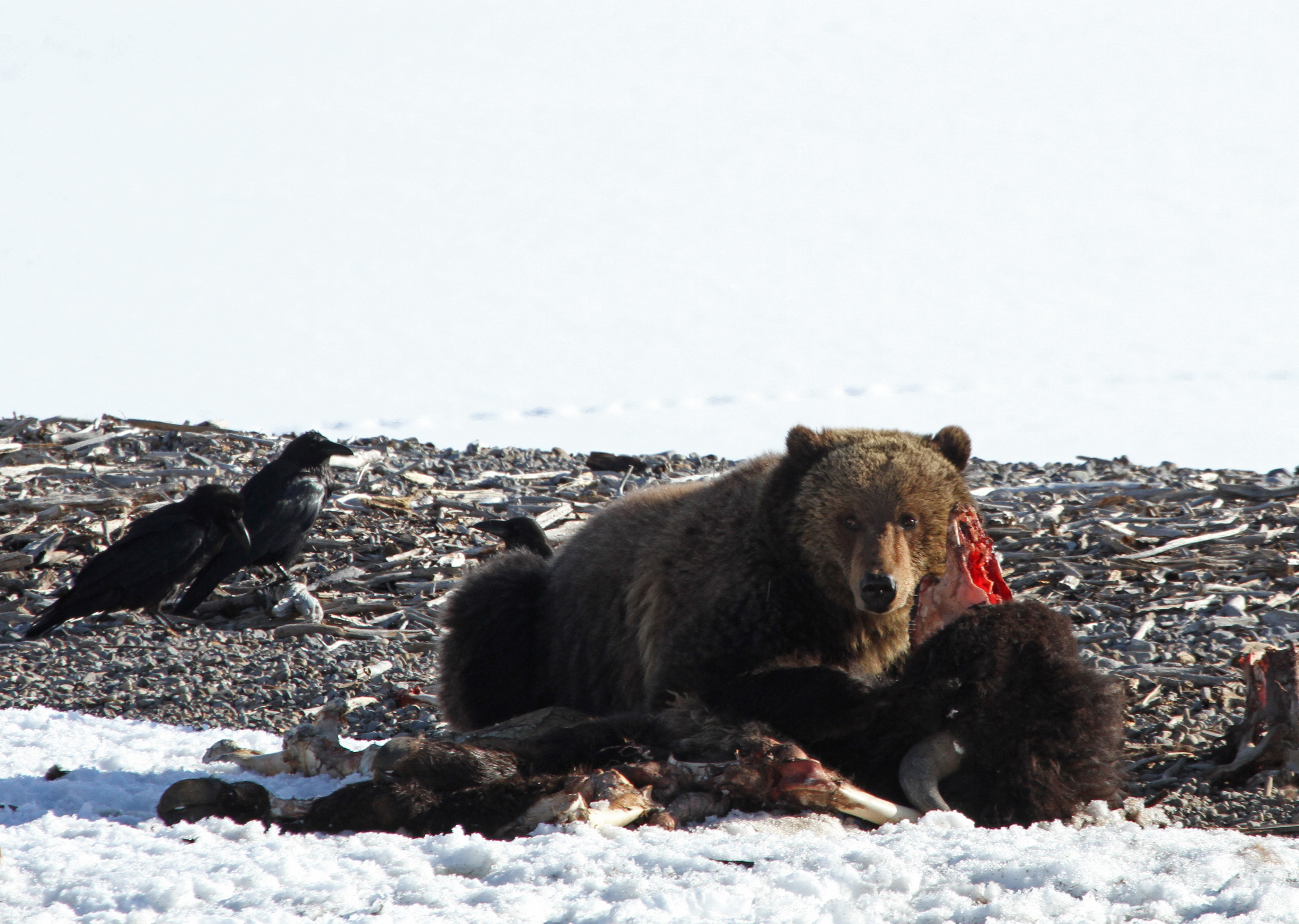 Grizzly bear on bison carcass near Yellowstone Lake; Jim Peaco; April 2013; Catalog #19071d; Original #IMG_9730